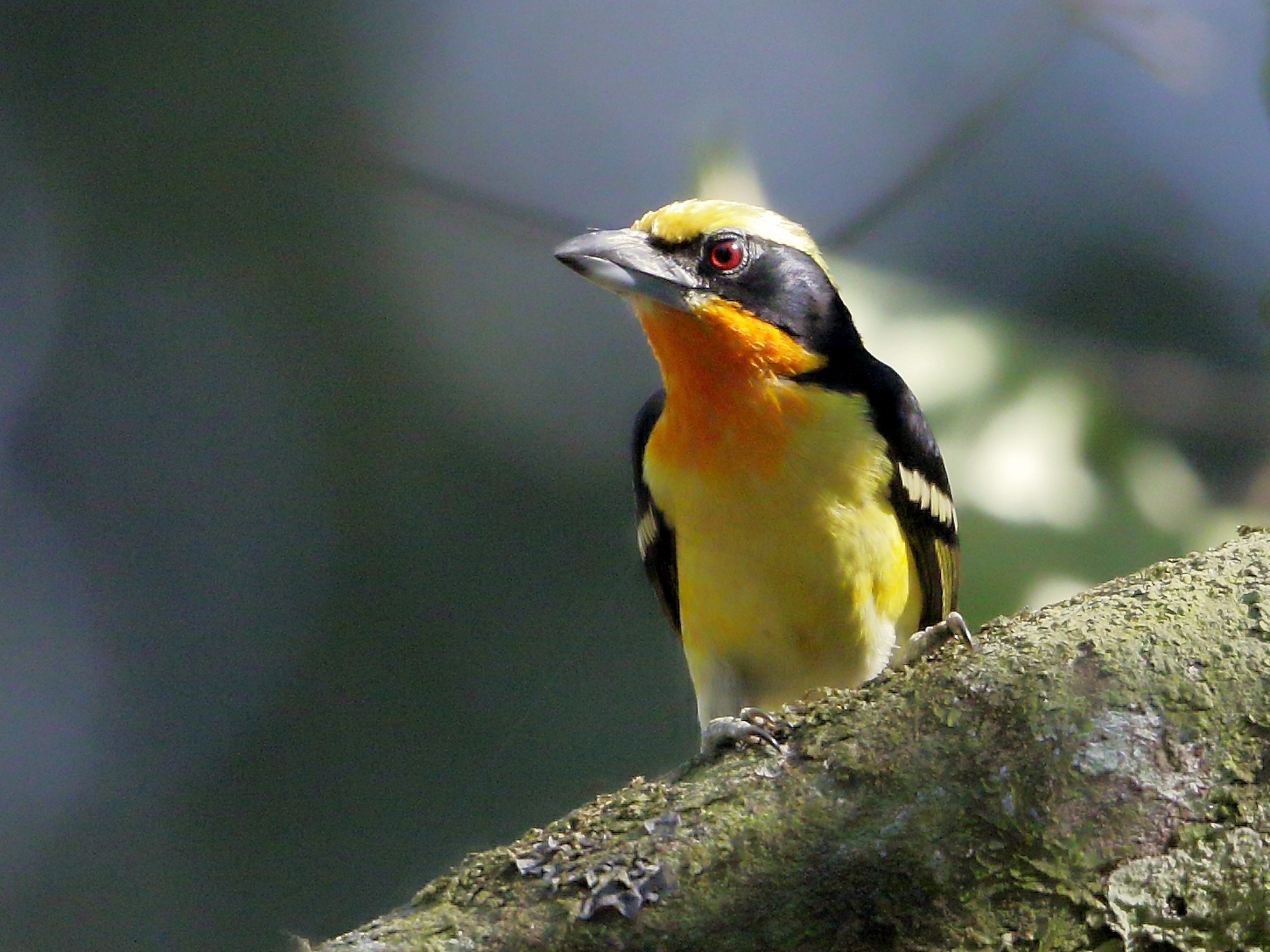 Gilded barbet (male); Rio Branco, Acre, Brazil